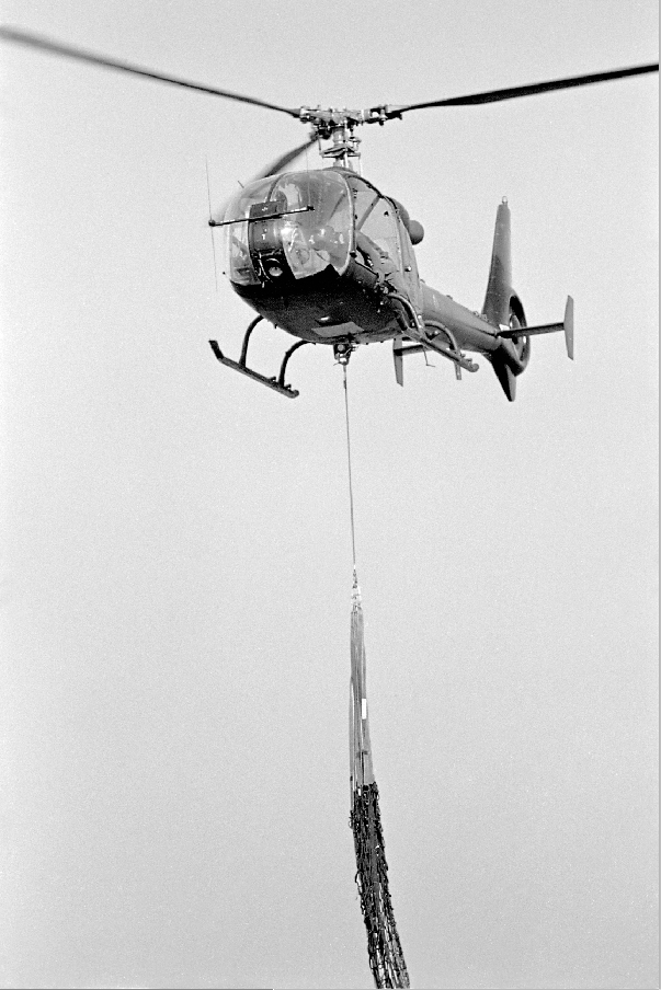 Westland Gazelle of 1 Reg AAC, Hildesheim, Germany in 1980 with underslung-load cargo-net.